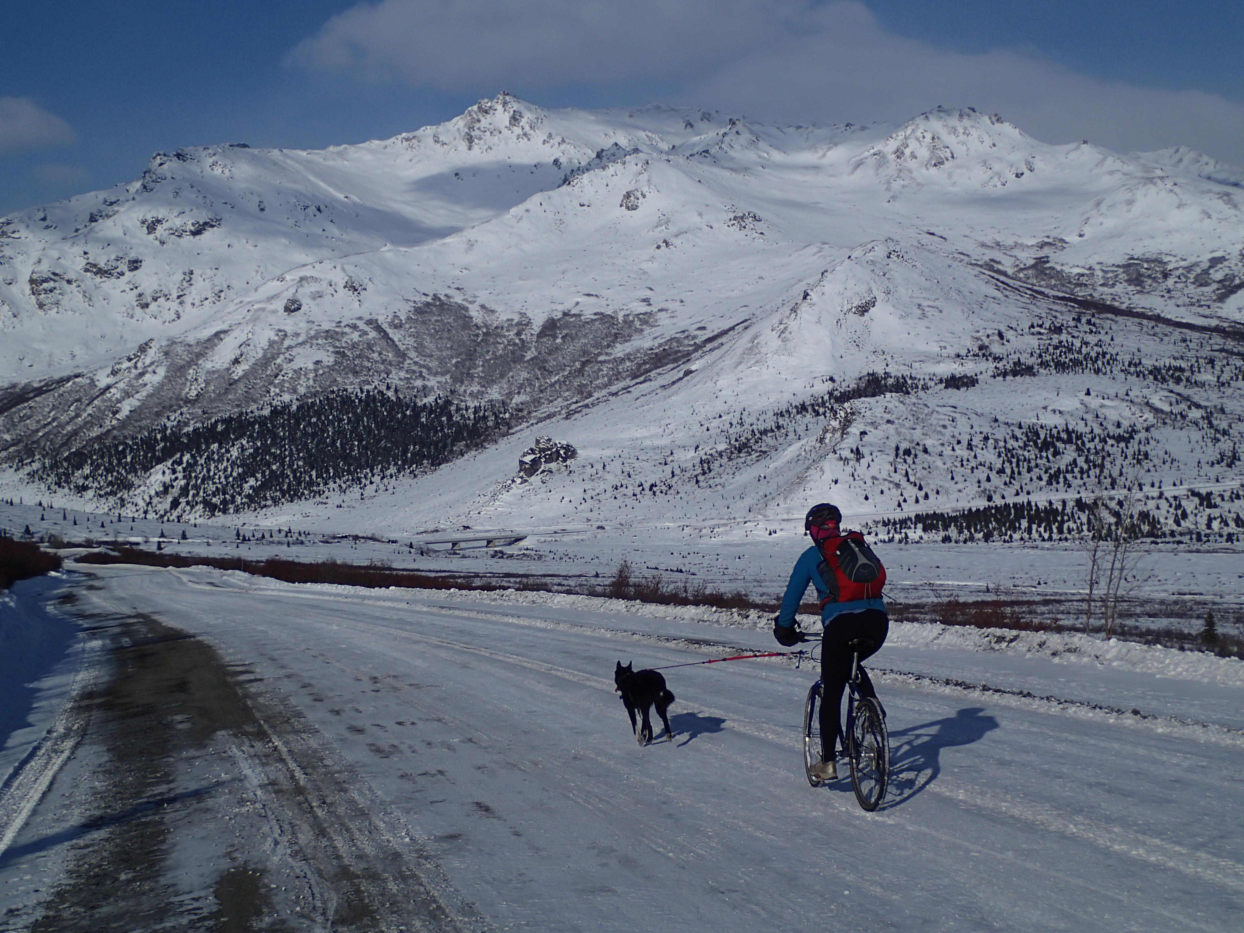 woman biking a snowy road while pulled by a dog A woman bike-joring, or biking while pulled by a dog, in Denali